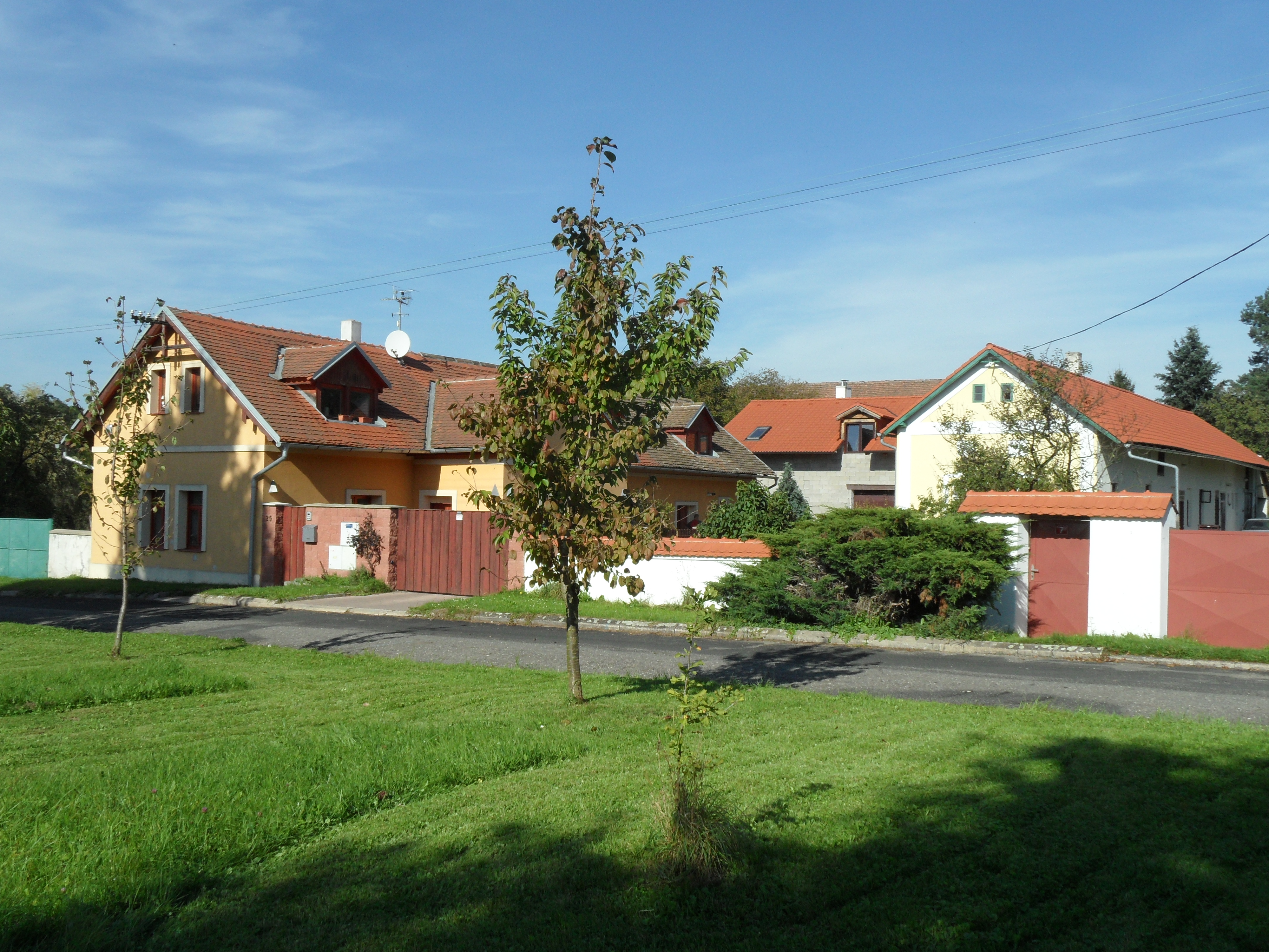 Vinařice (Týnec nad Labem) A. Houses at the Village Square, North-East Side, Kutná Hora District, the Czech Republic.